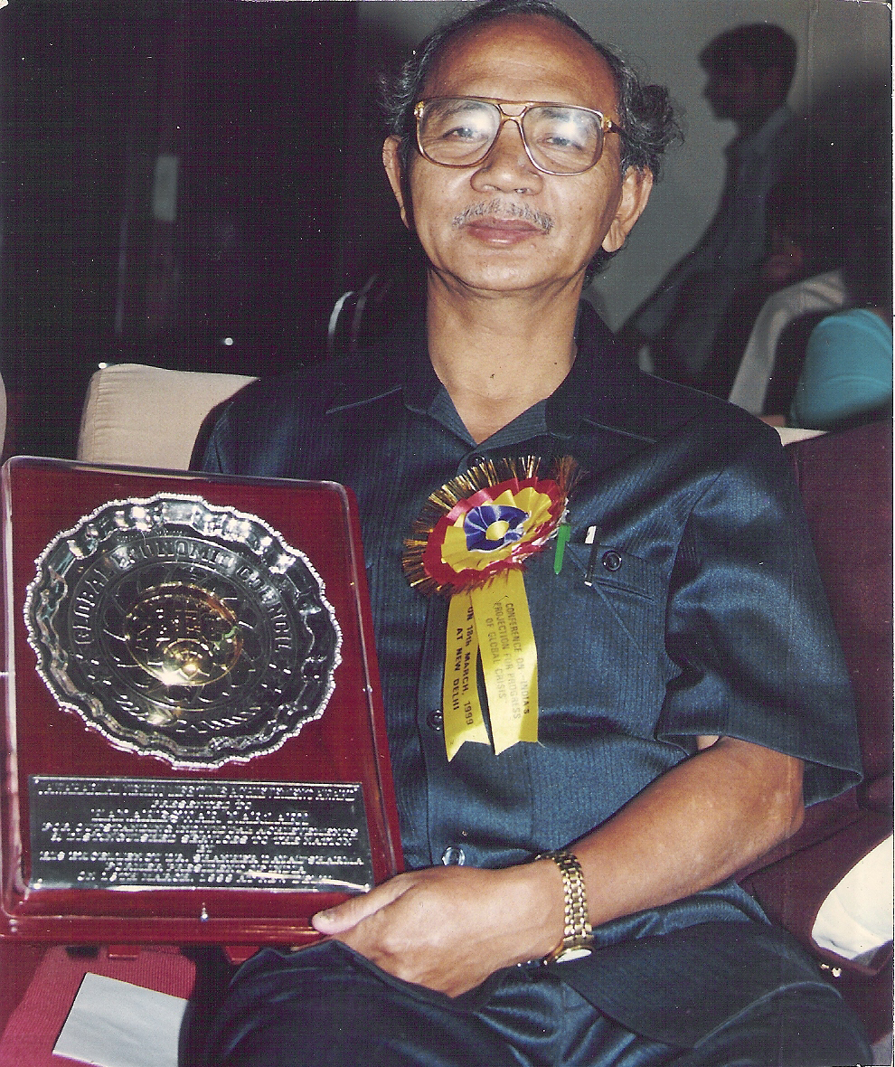 Receiving "Jawaharlal Nehru Life-time Achievement Award" by Global Economic Council at the Conference on India's Projection for Progress of Global Crisis, 18th March, 1999 at New Delhi, India.